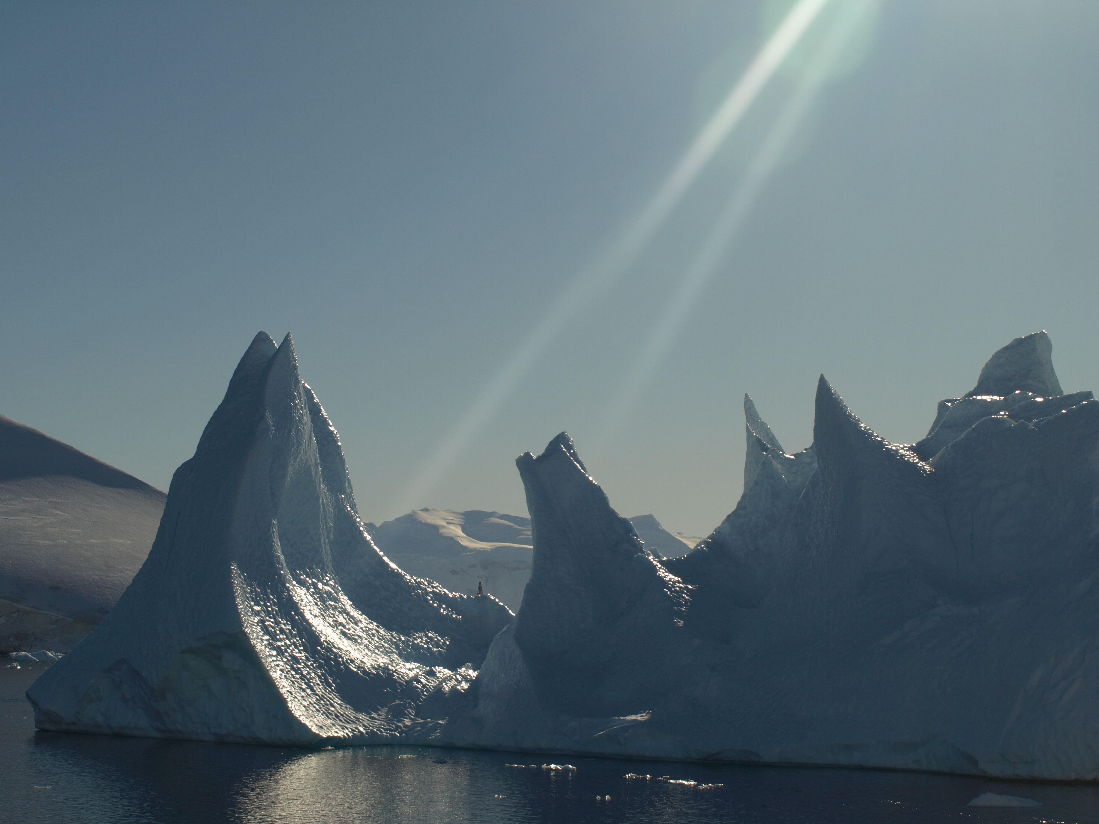 Particularly beautiful iceberg showing sun scallops and bubble rills.